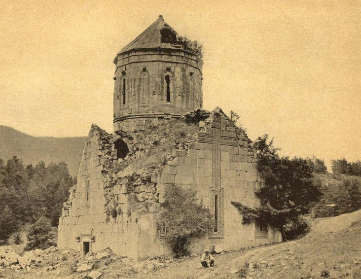 Bieti church ruins